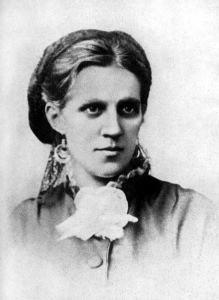 Dostoevsky's second wife, Anna.